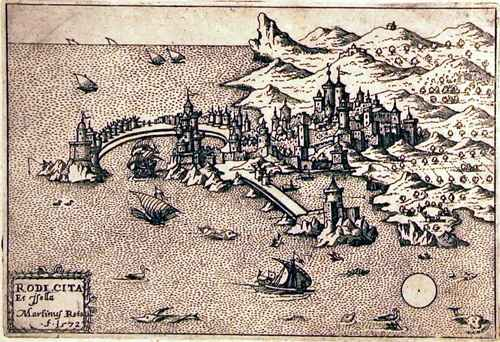 'RODI CITA', engraved view of Rhodes dated 1572 and signed 'Martinus Rota'